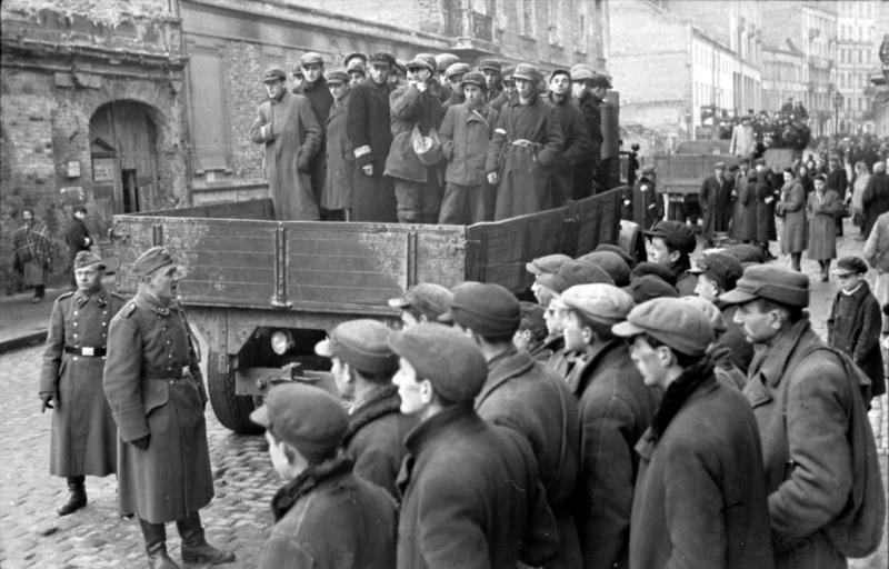 Warsaw Ghetto: Truck on Grzybowska street looking West. On the left ruins of J.J. Gay palace at Grzybowska 19 street. In the back on the turn of the street townhouse of Grzybowska 31.